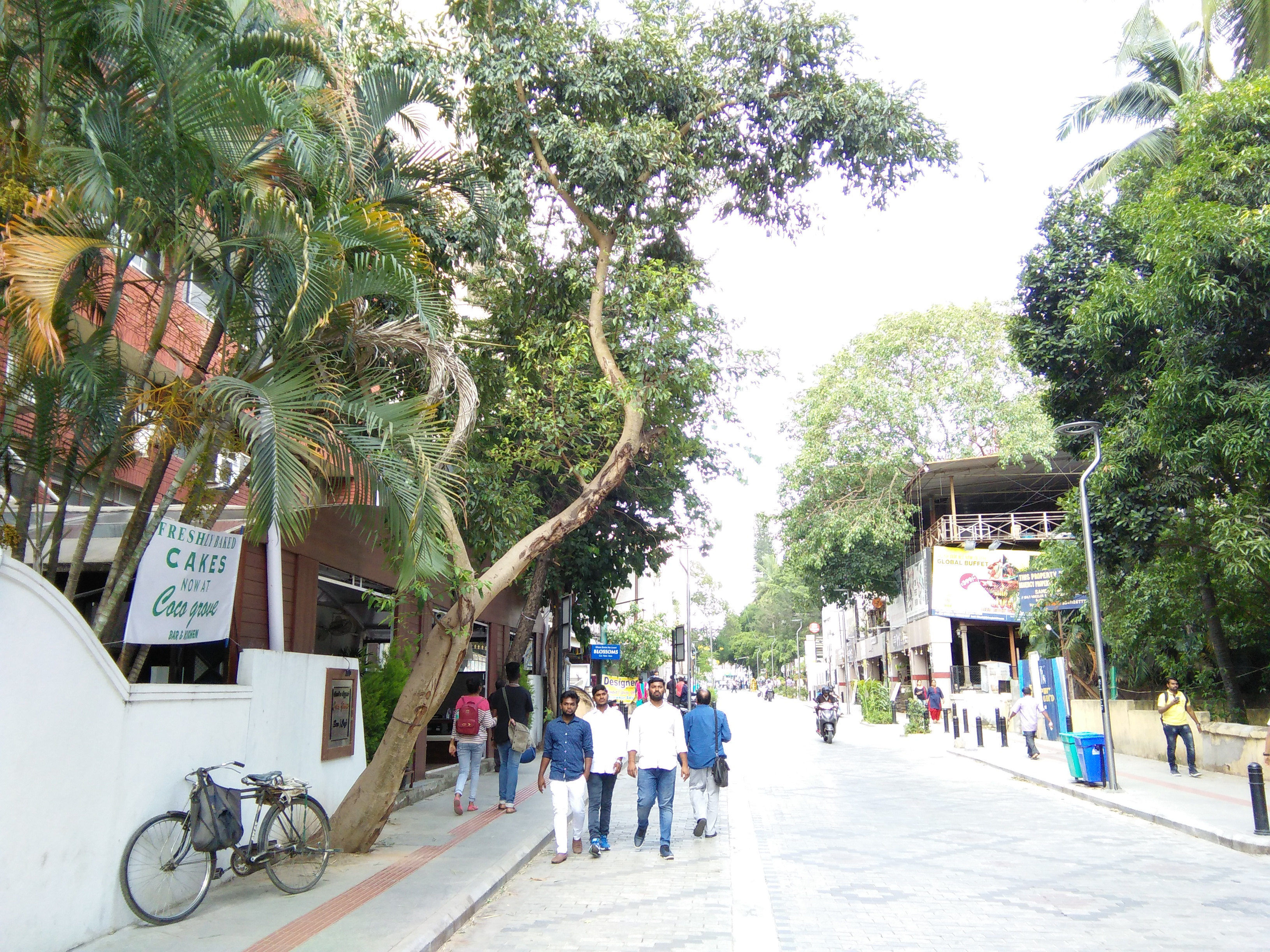 Trees along Church Street, Bangalore, India